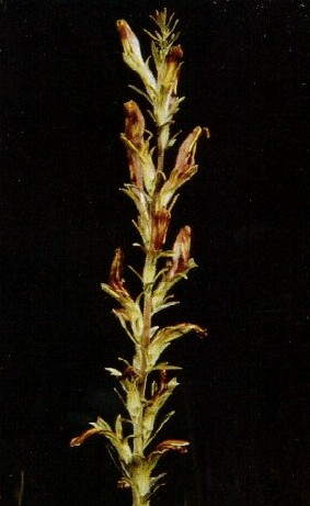 Schwalbea americana photo from USFWS info sheet